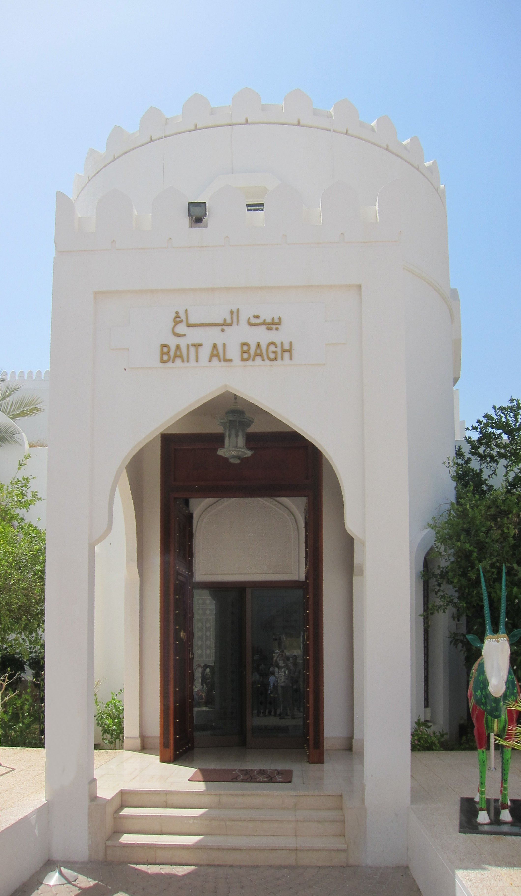 Bait Al Bagh, main building of the Bait al Zubair Museum